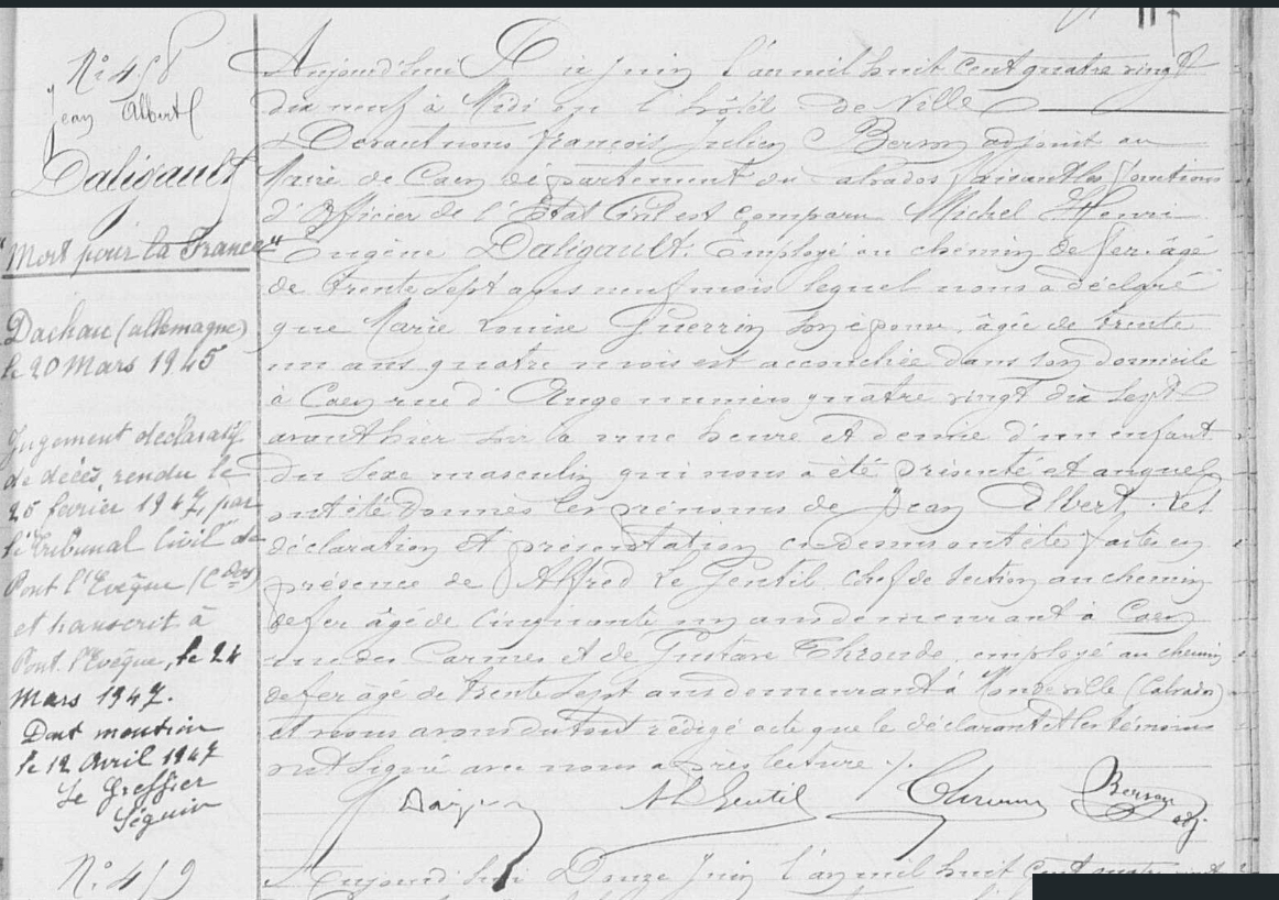 Birth of Abbé Jean Daligault